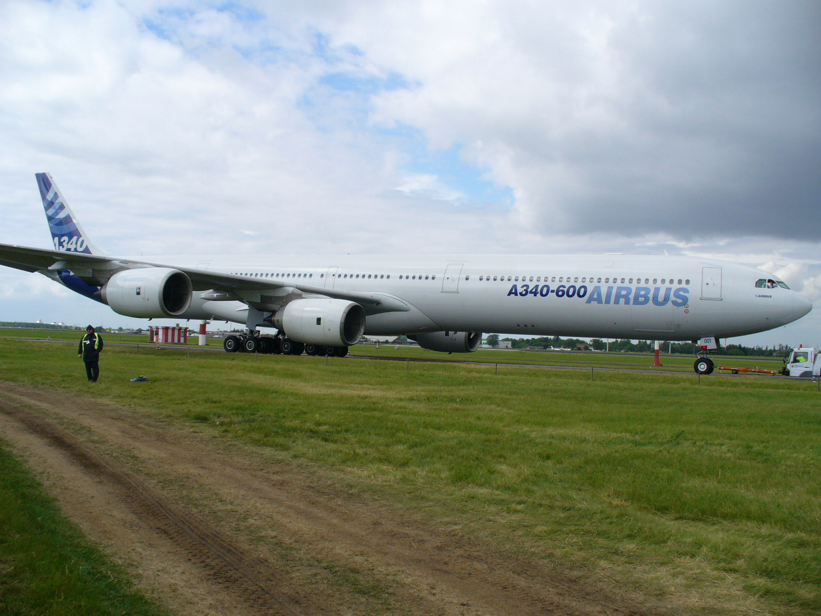 Airbus A340-600 na ILA 2006 Airus A340-600 at the ILA 2006